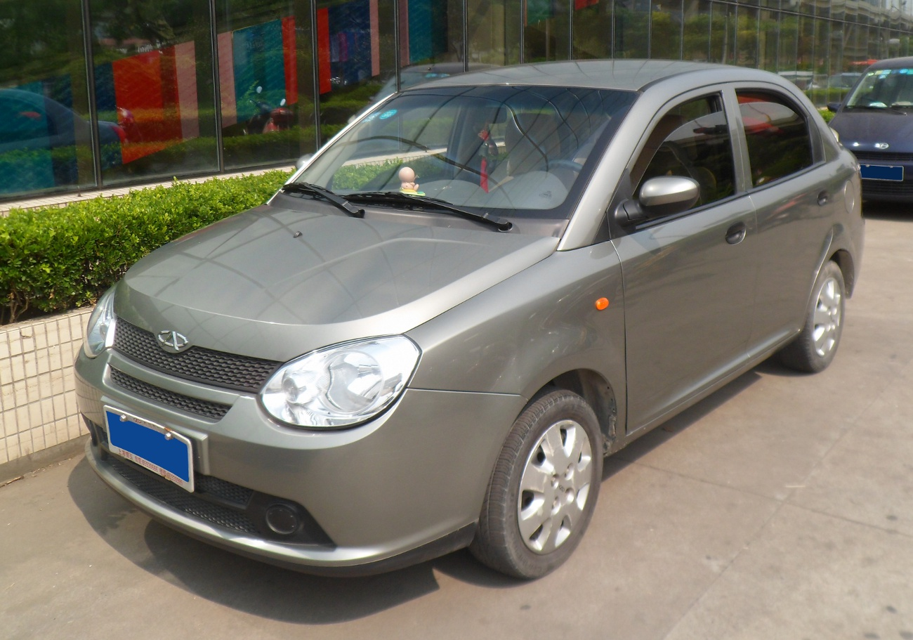 Chery Cowin 1 photographed in Shanghai, China.